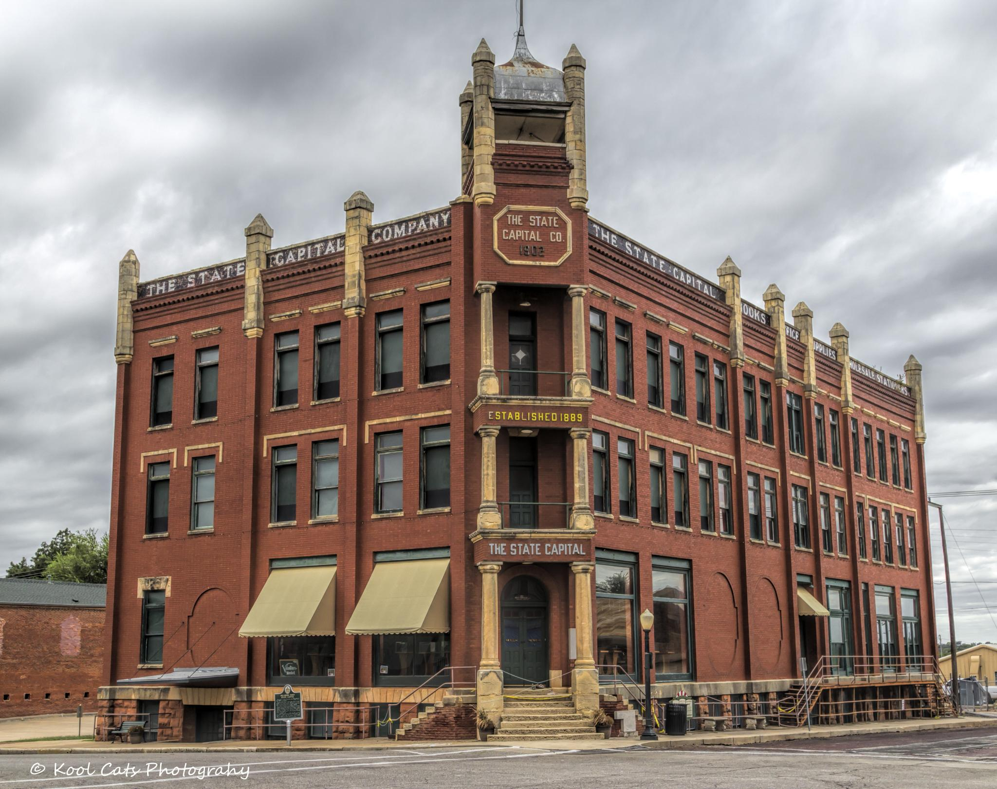 The Co-Operative Publishing Company Building, in Guthrie, Oklahoma, where the Oklahoma State Capital newspaper was published and printed, until 1911. The 1902 building is also known as the the State Capital Building, referring to the newspaper's title. It is listed on the National Register of Historic Places as the Co-Operative Publishing Company Building.